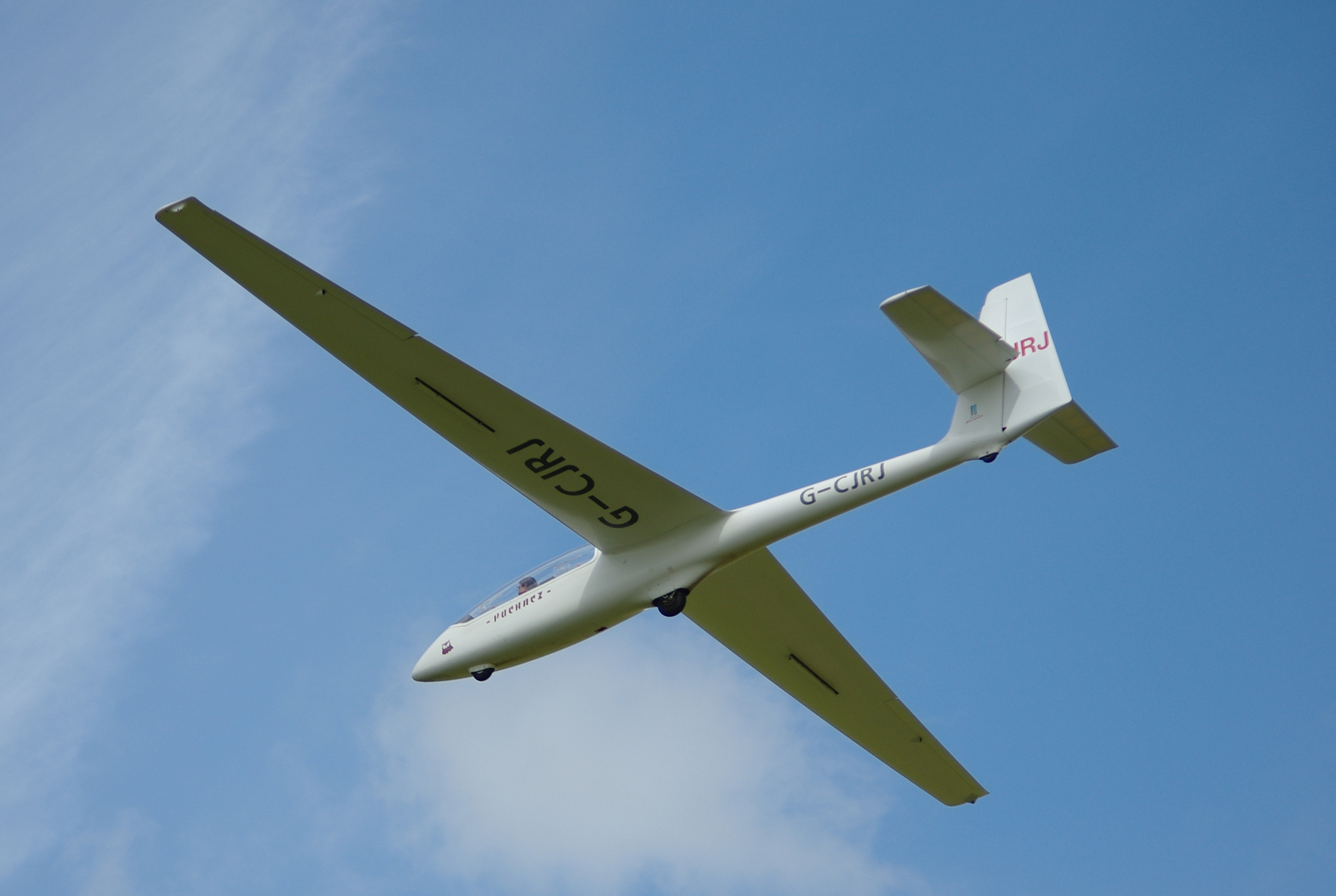 PZL SZD-50-3 Puchacz G-CJRJ of the Derbyshire and Lancashire GC at the Camphill Vintage Gliders Rally, June 2011